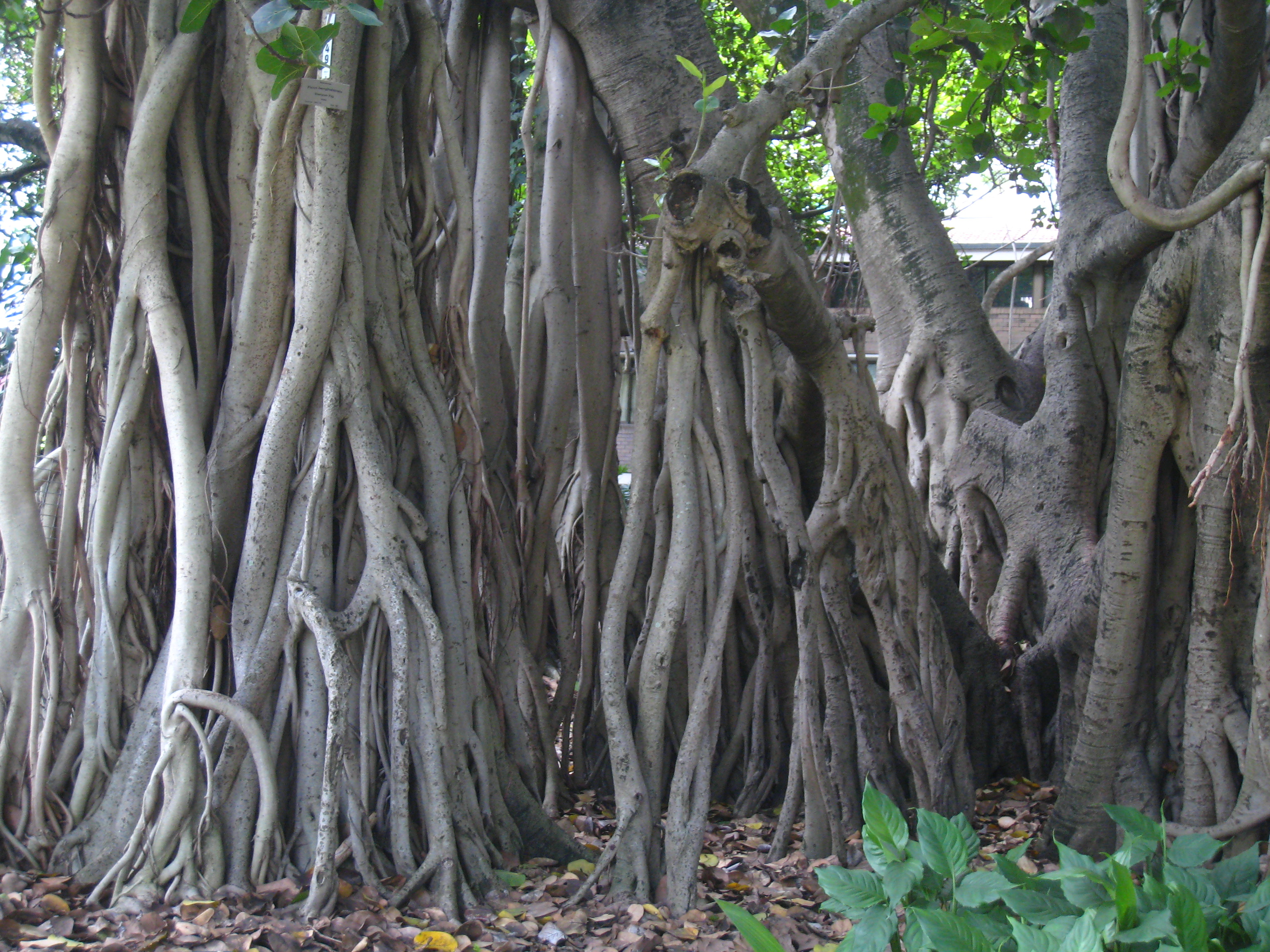 Banyan tree, Ficus benghalensis, City Botanic Gardens, Brisbane, QLD.